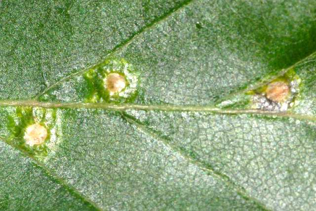 Hartigiola annulipes from Commanster, Belgian High Ardennes .